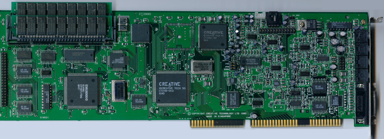 Creative Labs Sound Blaster AWE32 IDE. CT3990. Scan of card.